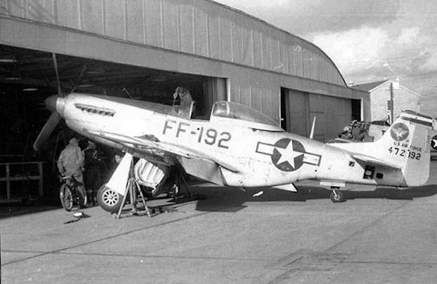 North American P-51 Mustang of the 3595th Pilot Training Wing (1950). Hanger at Nellis Air Force Base, southern Nevada.